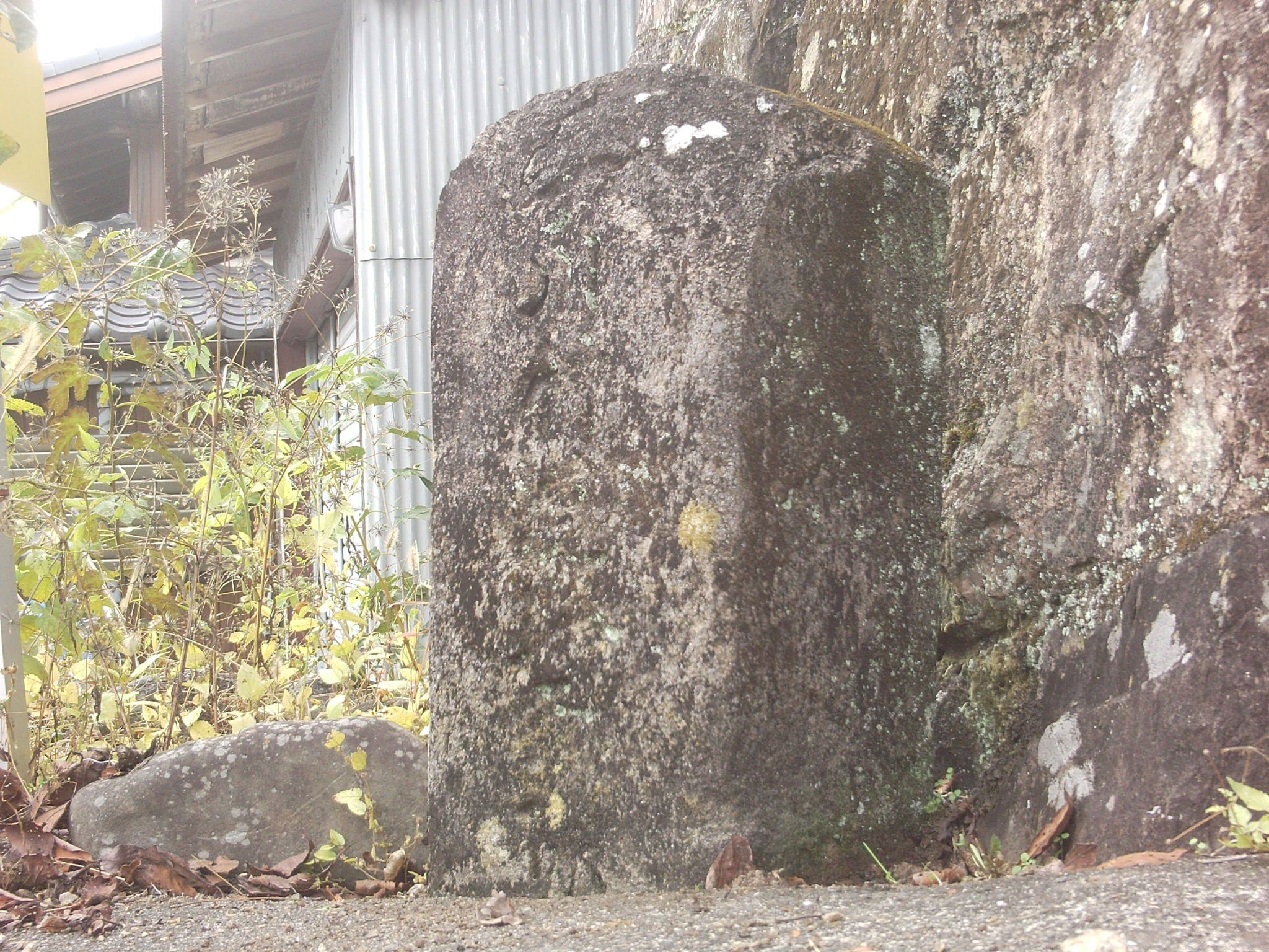 Kilometre zero of Shimokawa village. (Shimokawa village, Kitashitara-gun, Aichi.)